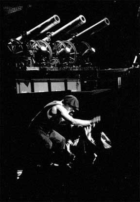 Brian Johnson with AC/DC.